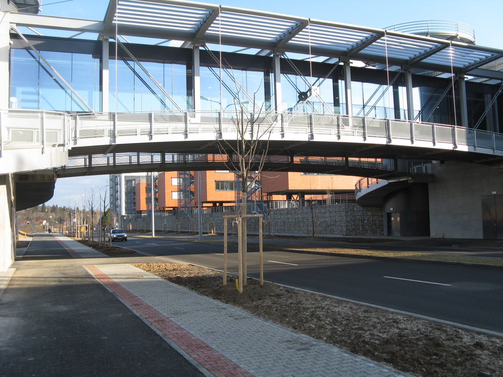 finished part of the university campus, MU Brno